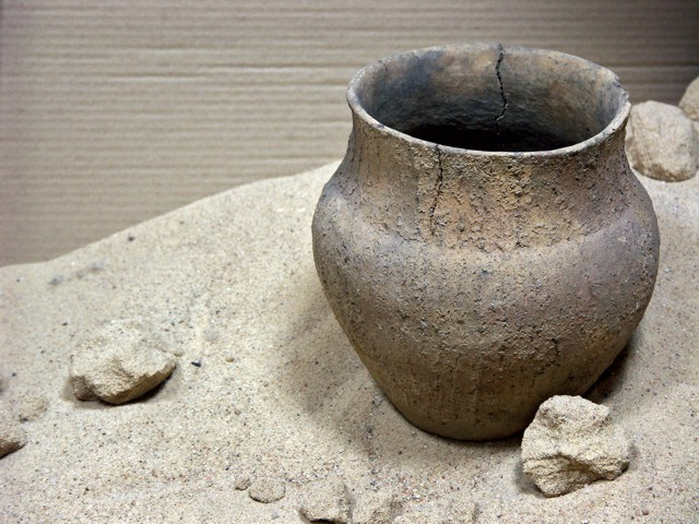 Archeological Museum in Częstochowa